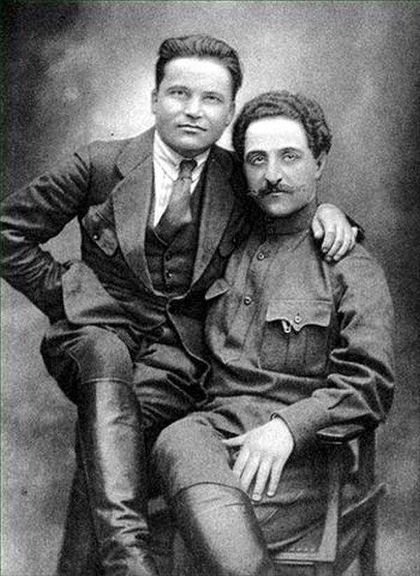 Sergei Kirov and Grigol Ordzhonikidze.